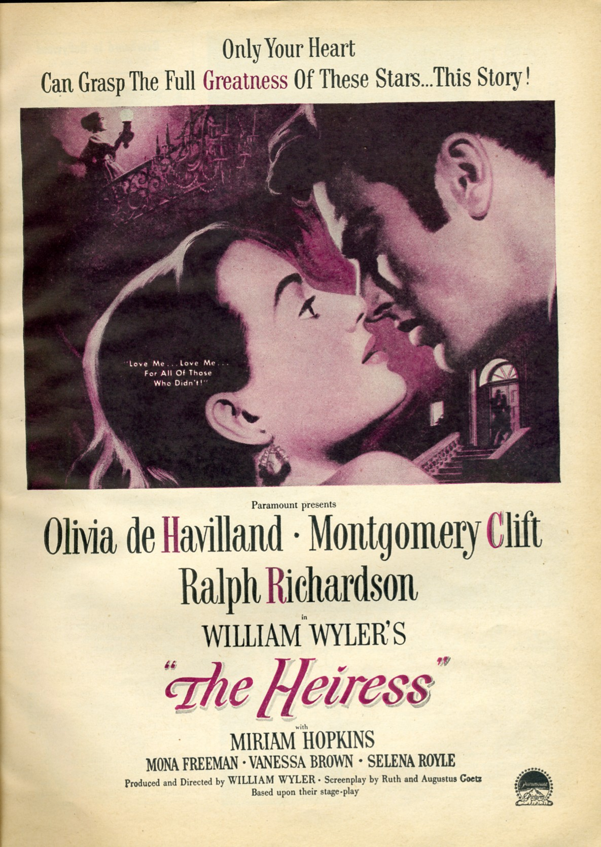 Movie poster for The Heiress (1949). The film was directed by William Wyler, with starring performances by Olivia de Havilland as Catherine Sloper, Montgomery Clift as Morris Townsend, Ralph Richardson as Dr. Austin Sloper and Miriam Hopkins as Lavinia Penniman.